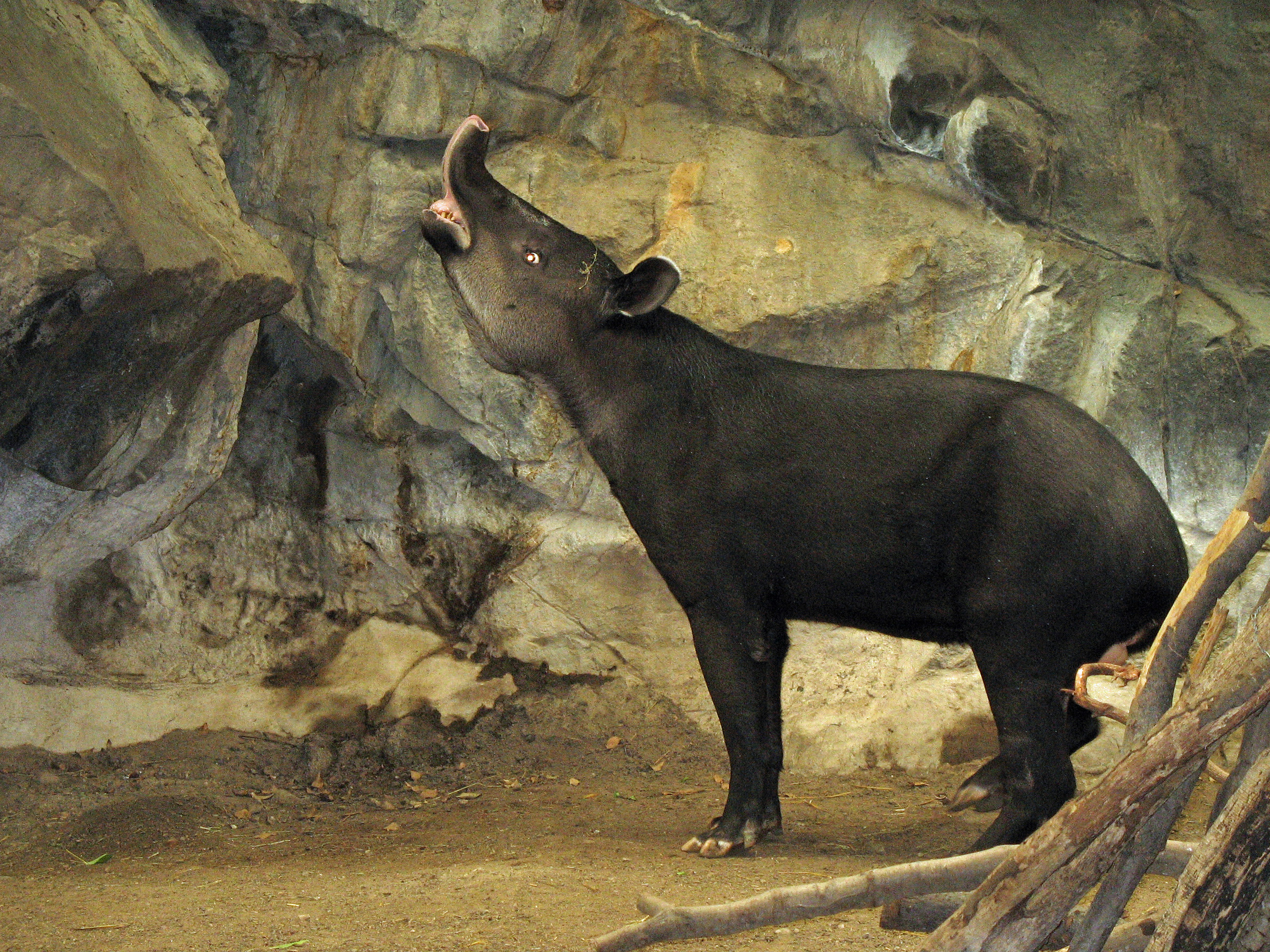 Milton, a 16-year-old male Baird's Tapir at the Franklin Park Zoo in Boston, Massachusetts.